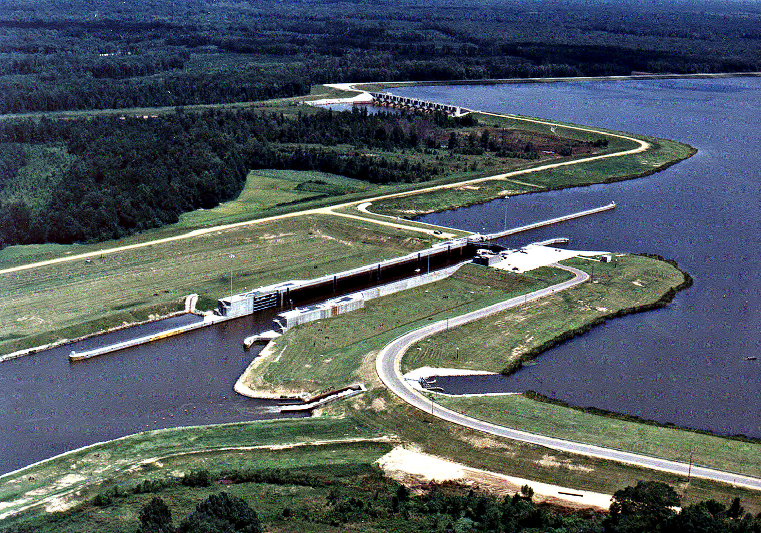 Aerial view of Glover Wilkins Lock and Dam on the Tombigbee River near Smithville, Monroe County, Mississippi, USA. The lock and river are part of the Tennessee-Tombigbee Waterway, connecting the Tennessee River to the Gulf of Mexico. The U.S. Army Corps of Engineers maintains the lock and waterway for barge navigation. View is upriver to the north. Coordinates: 34°3′53.54″N 88°25′33.19″W / 34.0648722°N 88.4258861°W